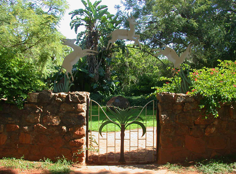 The gate to the Springbokpark in Pretorius street, Hatfield, Pretoria, South Africa